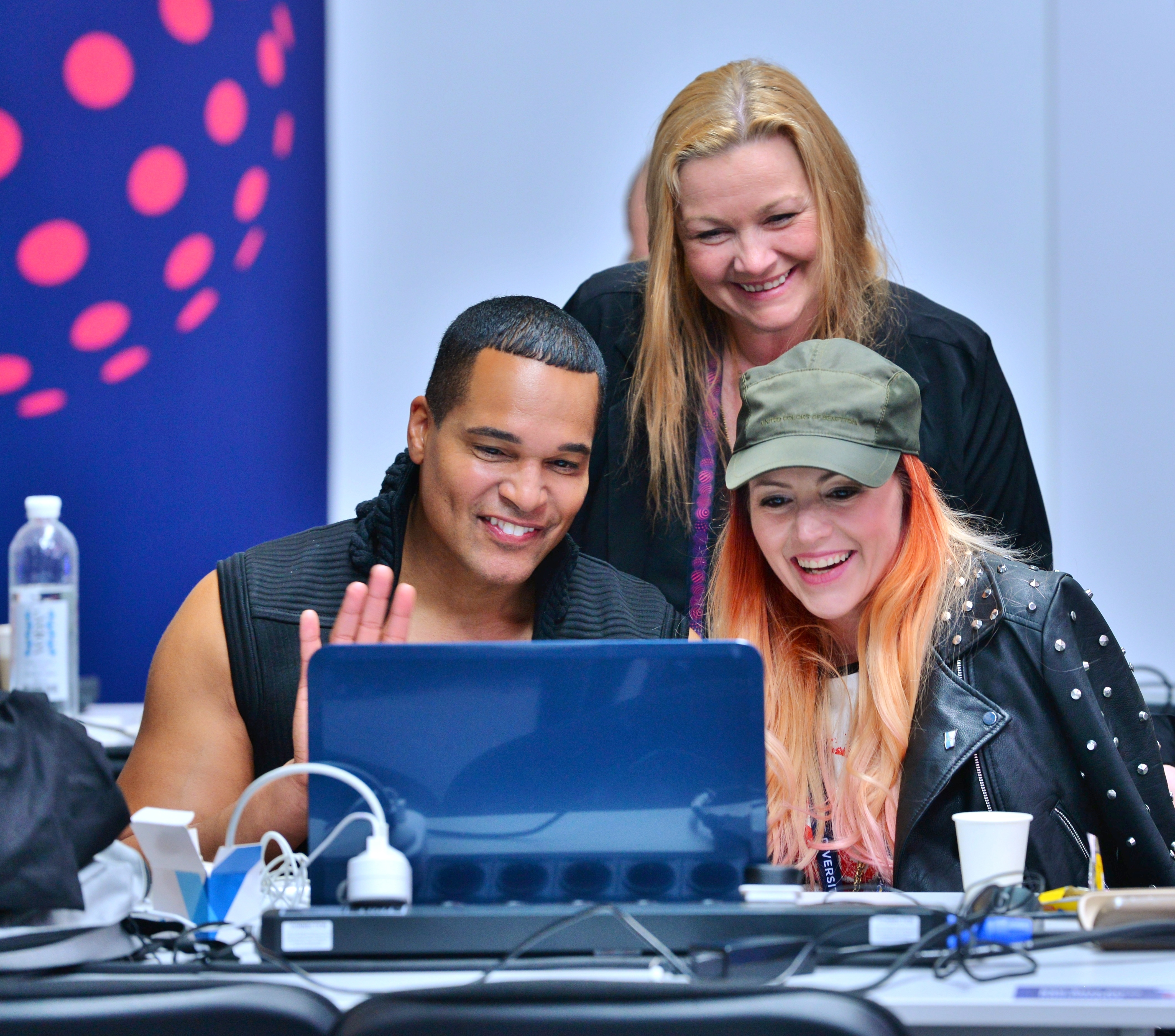 Valentina Monette & Jimmie Wilson on Eurovision Song Contest 2017